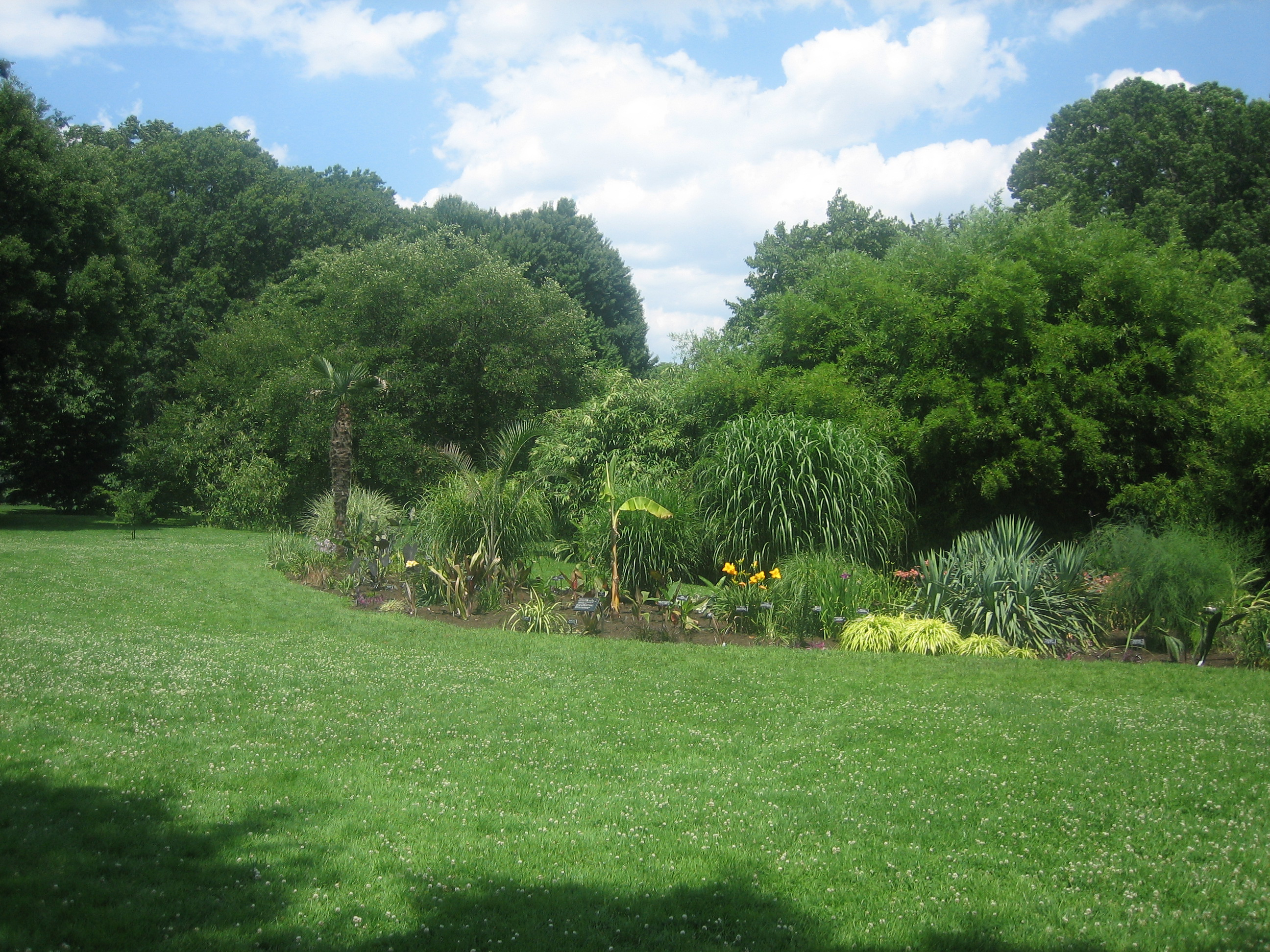 I took this photo on July 8, 2007.Billy Hathorn (talk) 14:34, 27 June 2008 (UTC)